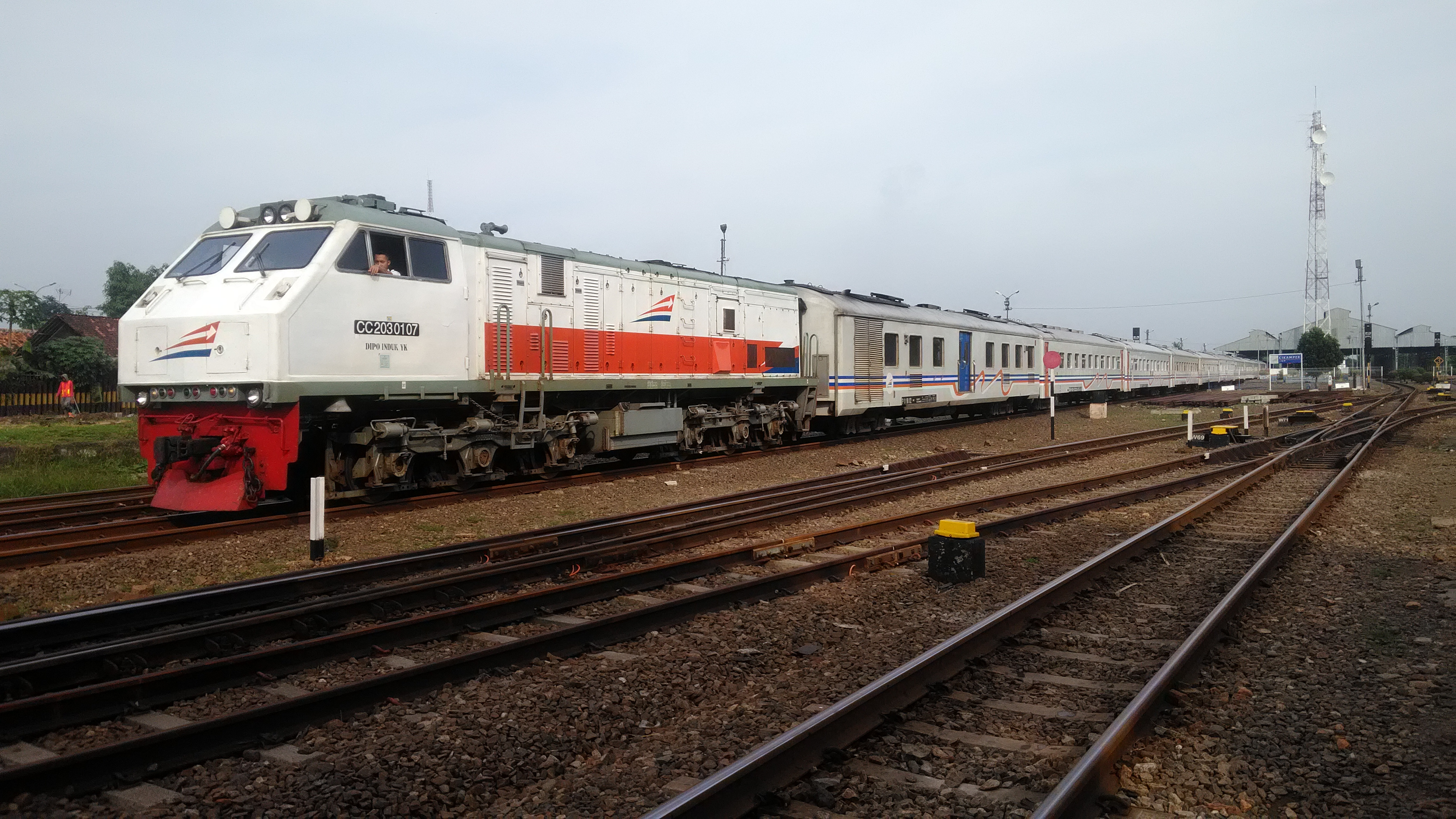 Gajahwong Train crossing Cikampek Railway Station